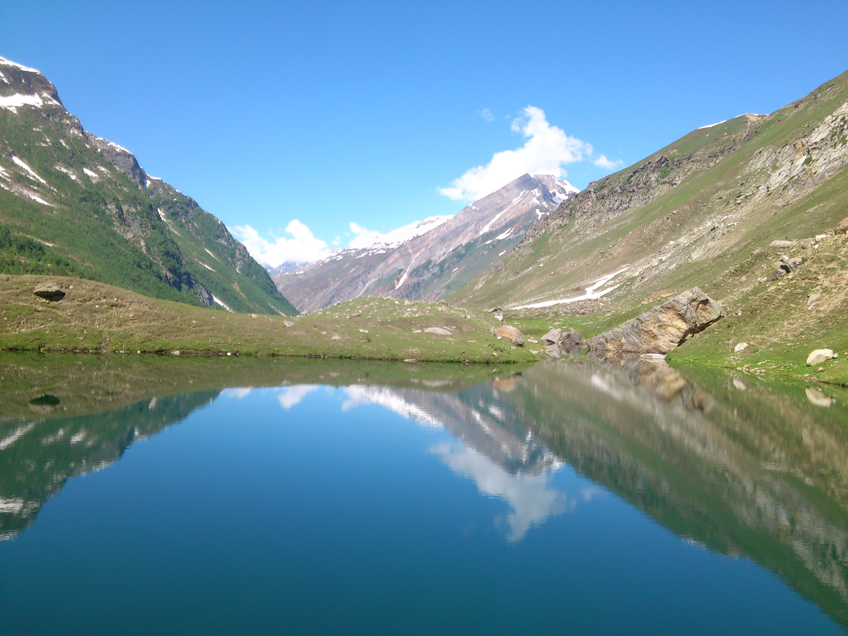 The amazing and heart shaped lake, Shounter lake.